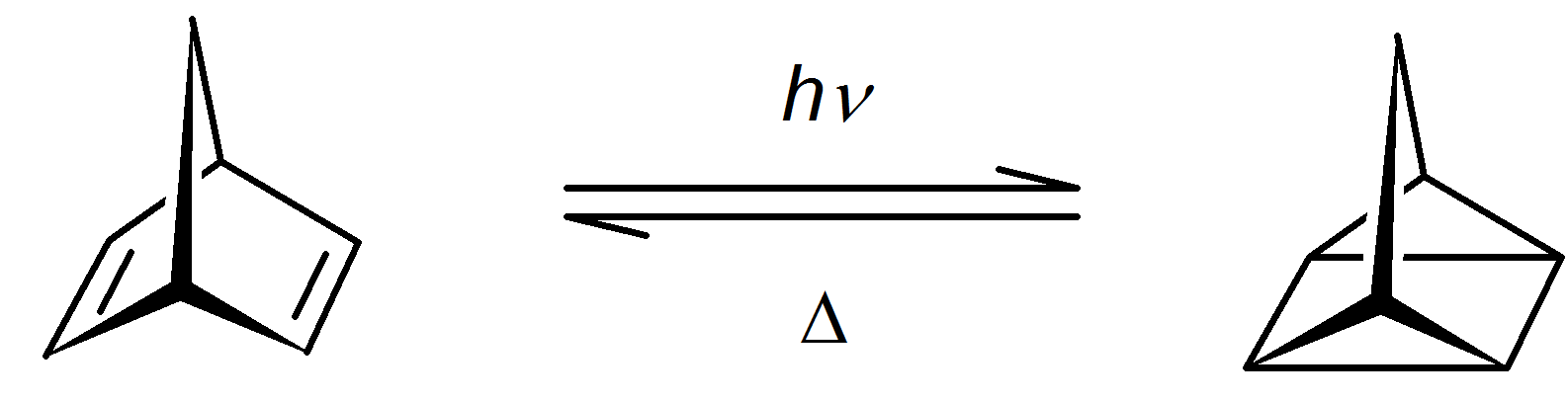 Norbornadiene-quadricyclane couple Derived from File:Synthesis of quadricyclane from norbornadiene.png